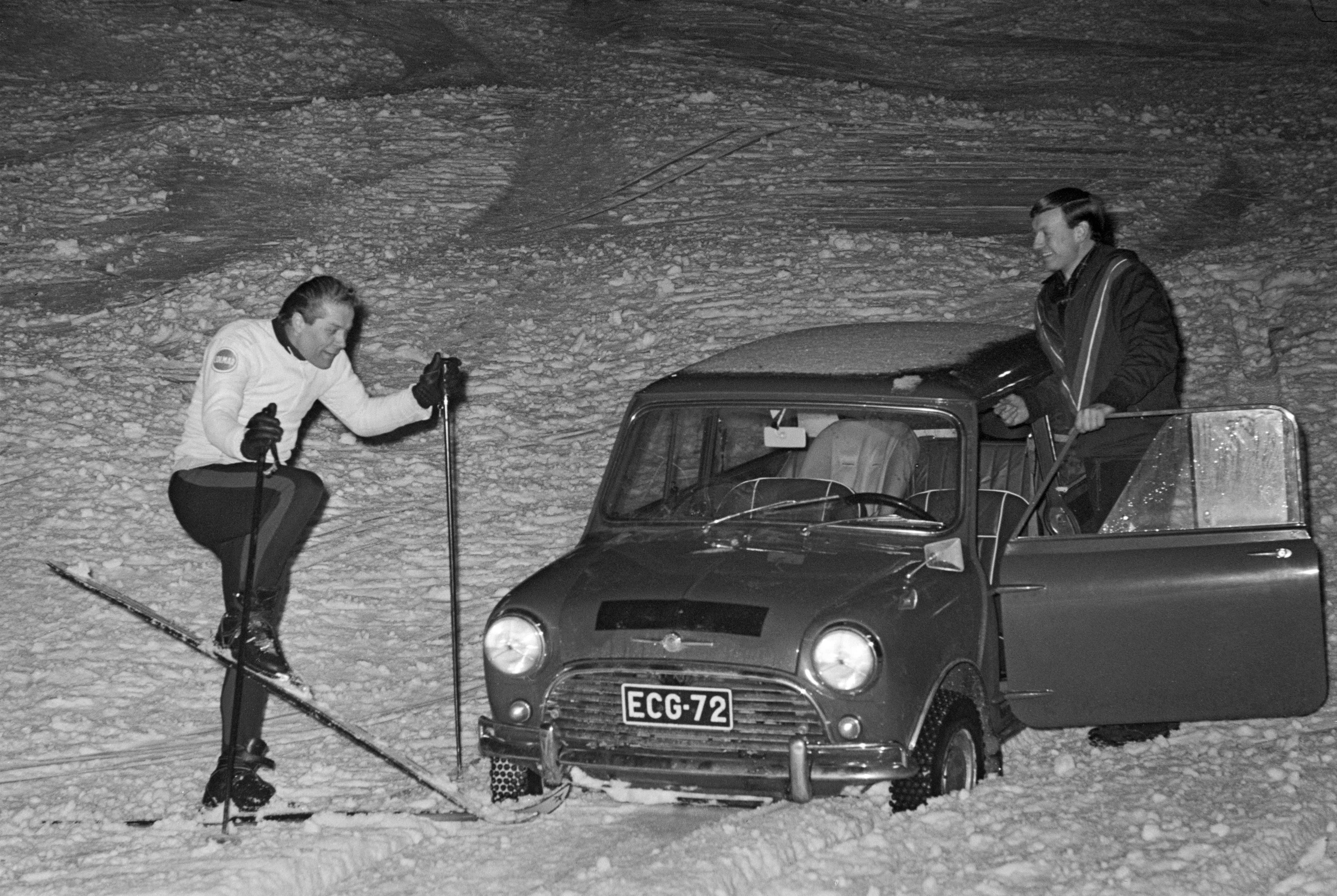 The Finnish speed skier Kalevi Häkkinen races down a ski slope to compete against the Finnish rally driver Rauno Aaltonen driving a Mini Cooper, in Turku Finland, on March 6, 1967. Aaltonen’s Mini wins the race with a minumum margin.